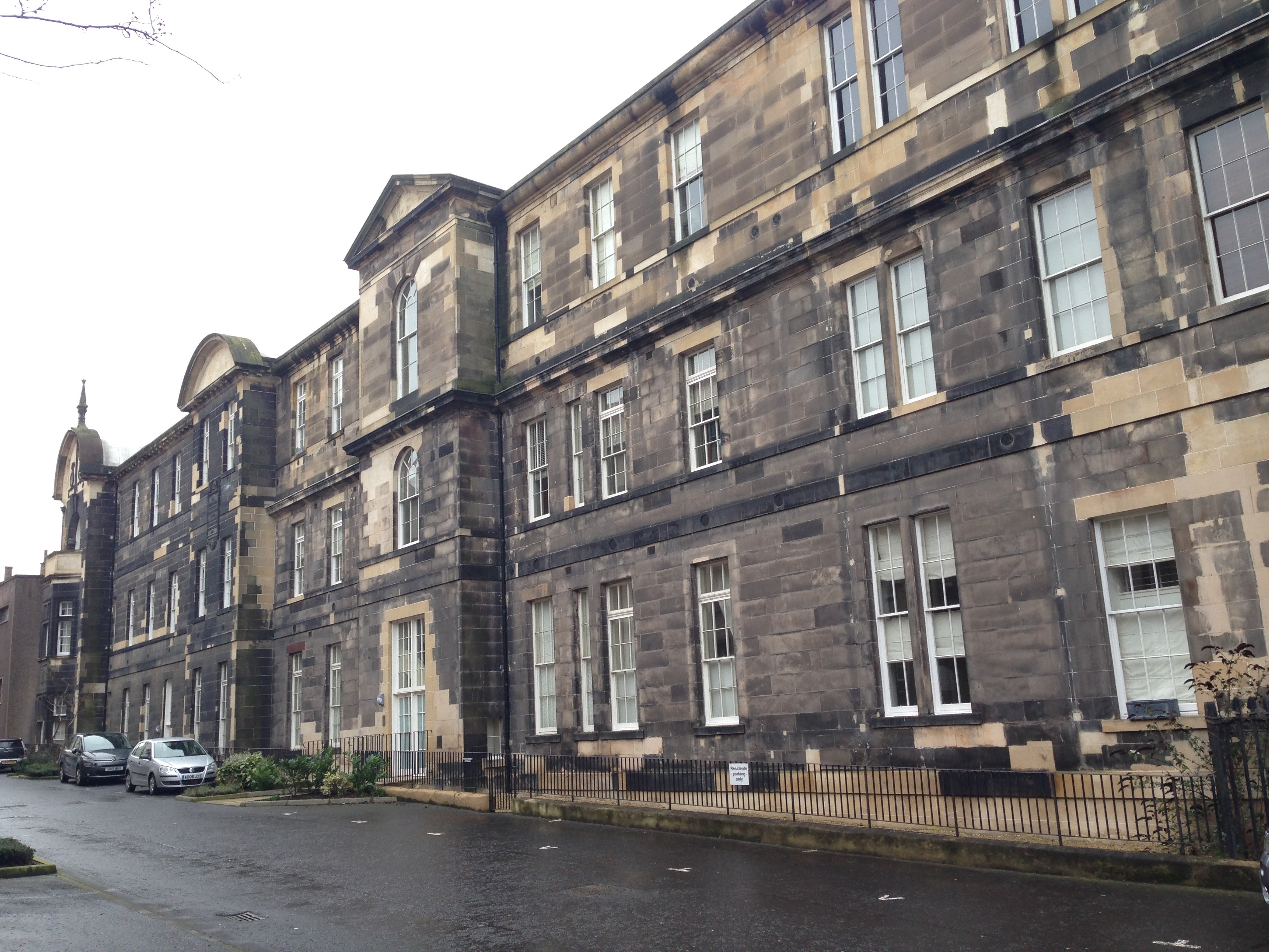 Driveway of Leith Hospital, Mill Lane